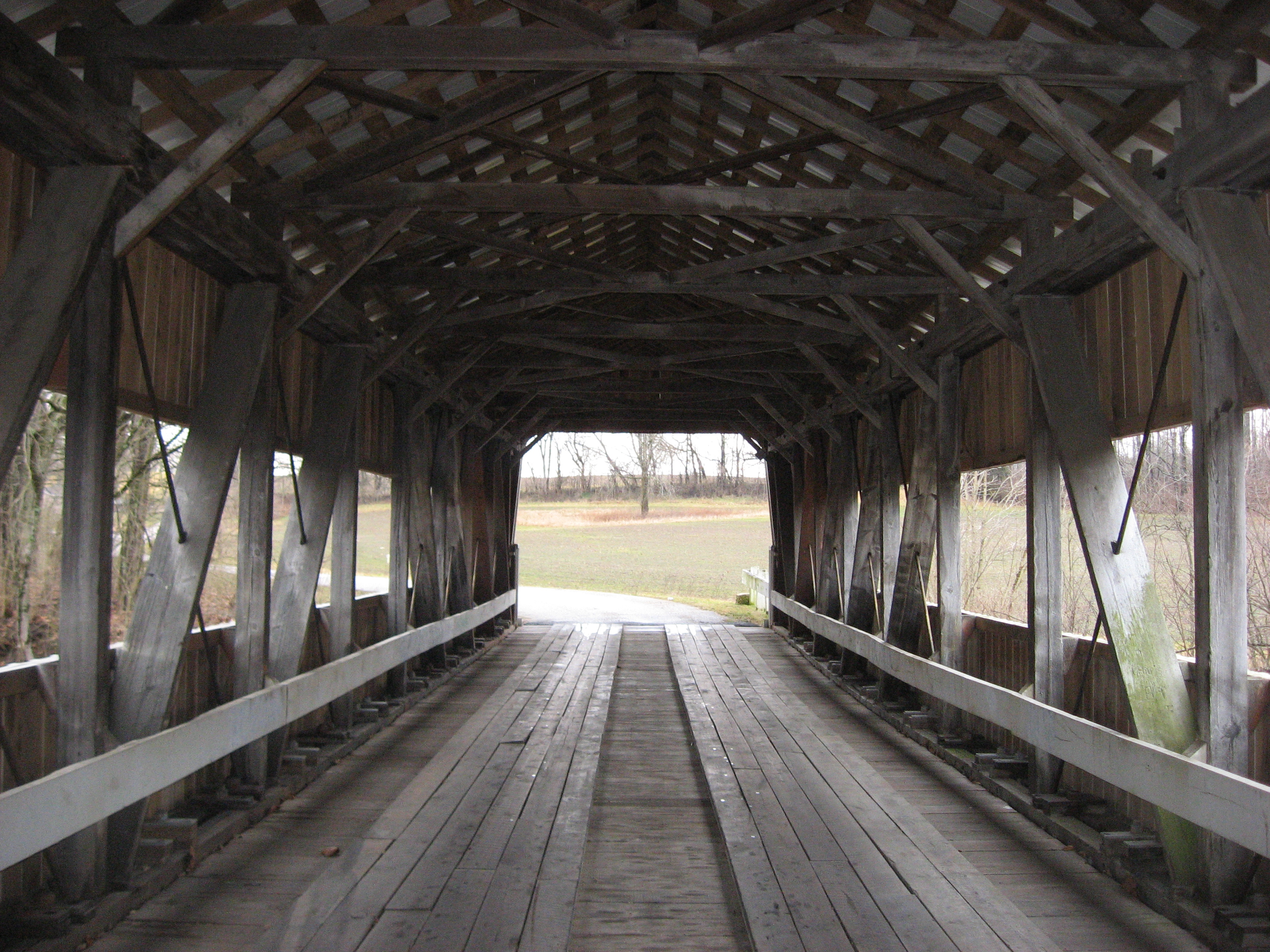 Looking westward inside the Brubaker Covered Bridge, which carries Aukerman Creek Road over Sandy Run west of Gratis in Gratis Township, Preble County, Ohio, United States. Built in 1887, it is listed on the National Register of Historic Places.